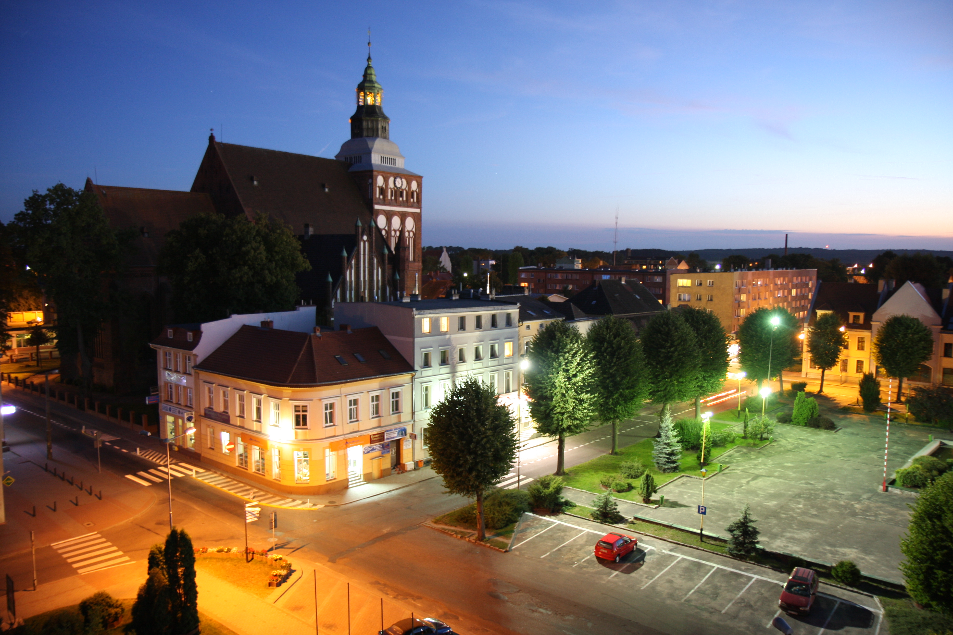 Zwycięstwa Square in Gryfice, Poland